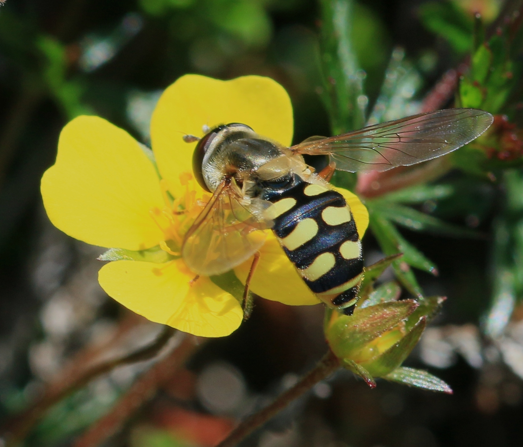 Tarbat Ness, Ross-shire, Scotland (NH947876)